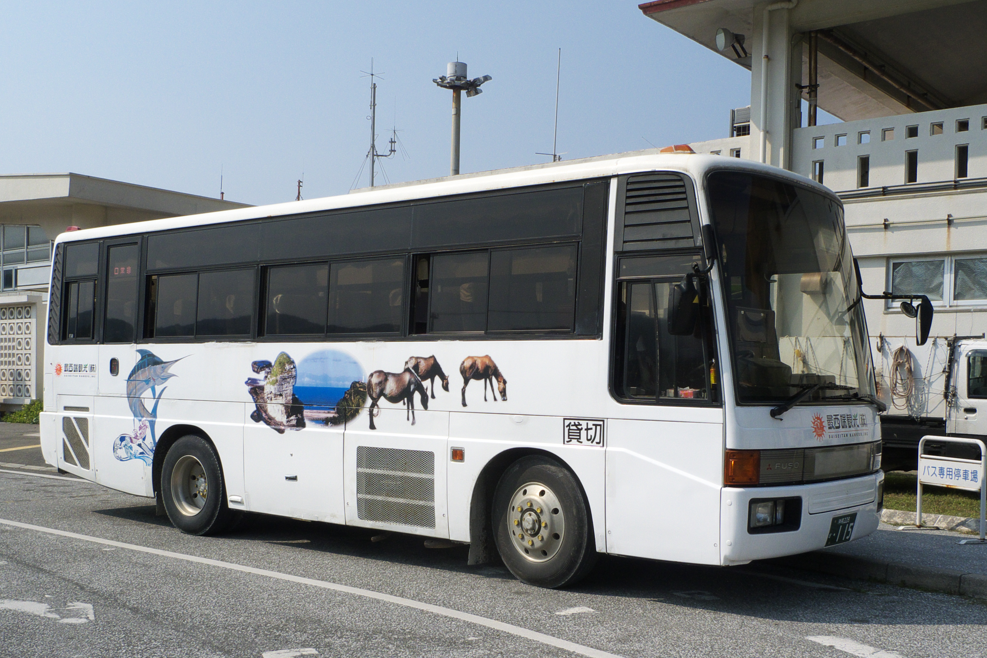 Saiseitan Kanko bus at Yonaguni Airport in Yonaguni Town, Okinawa Prefecture, Japan